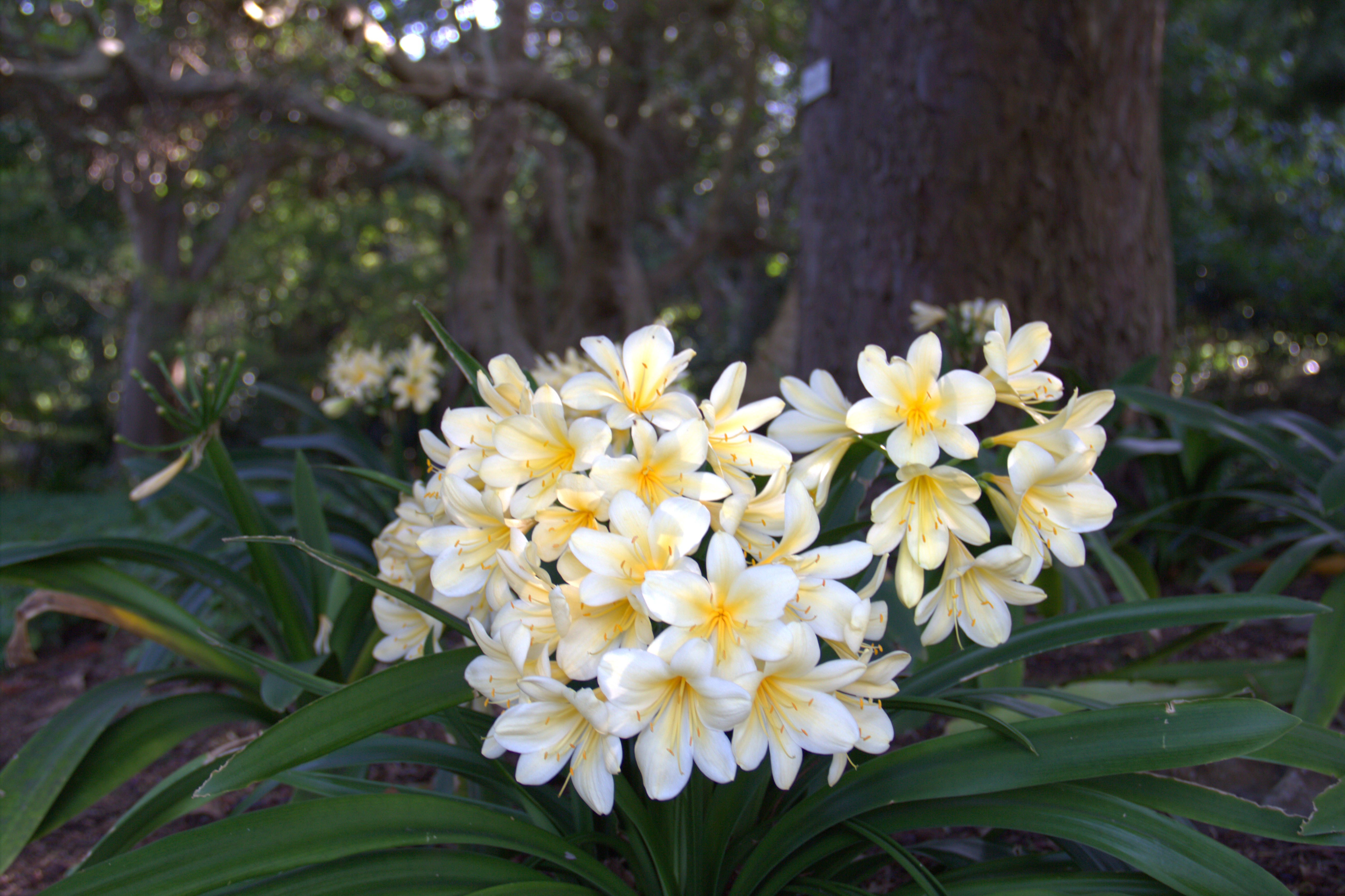 Clivia miniata var. citrina, Kirstenbosch National Botanical Garden, Cape Town, South Africa